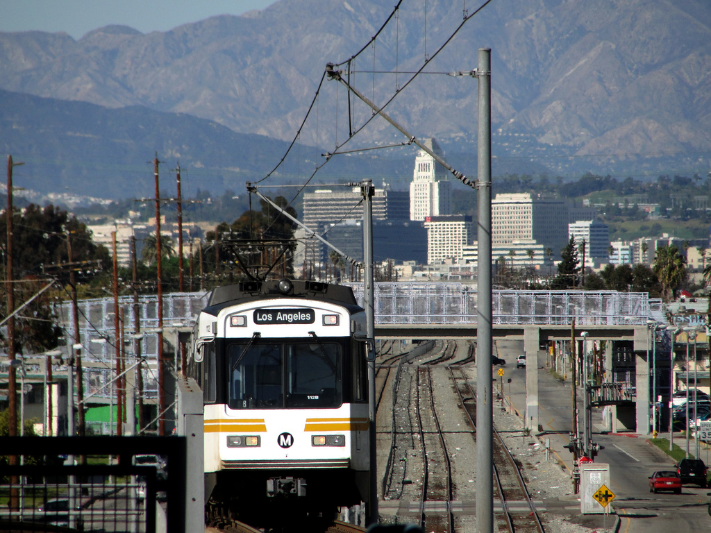 Los Angeles Metro Light Rail Blue Line arriving at Slauson Station